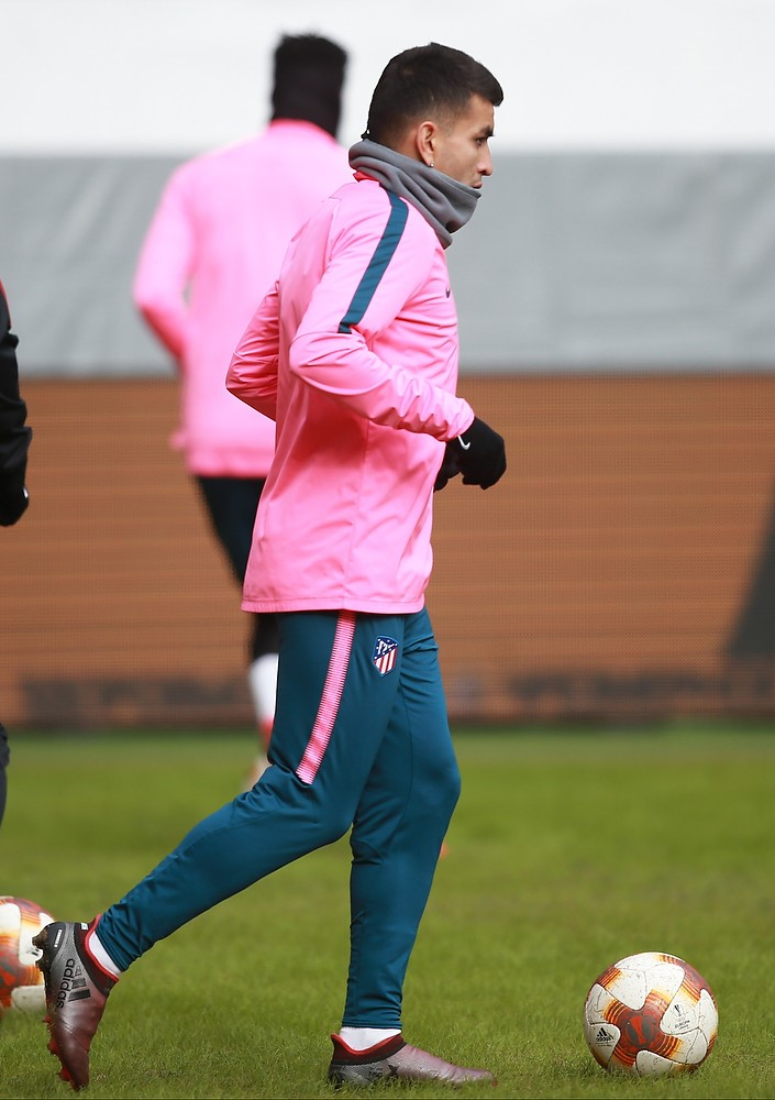 Ángel Correa